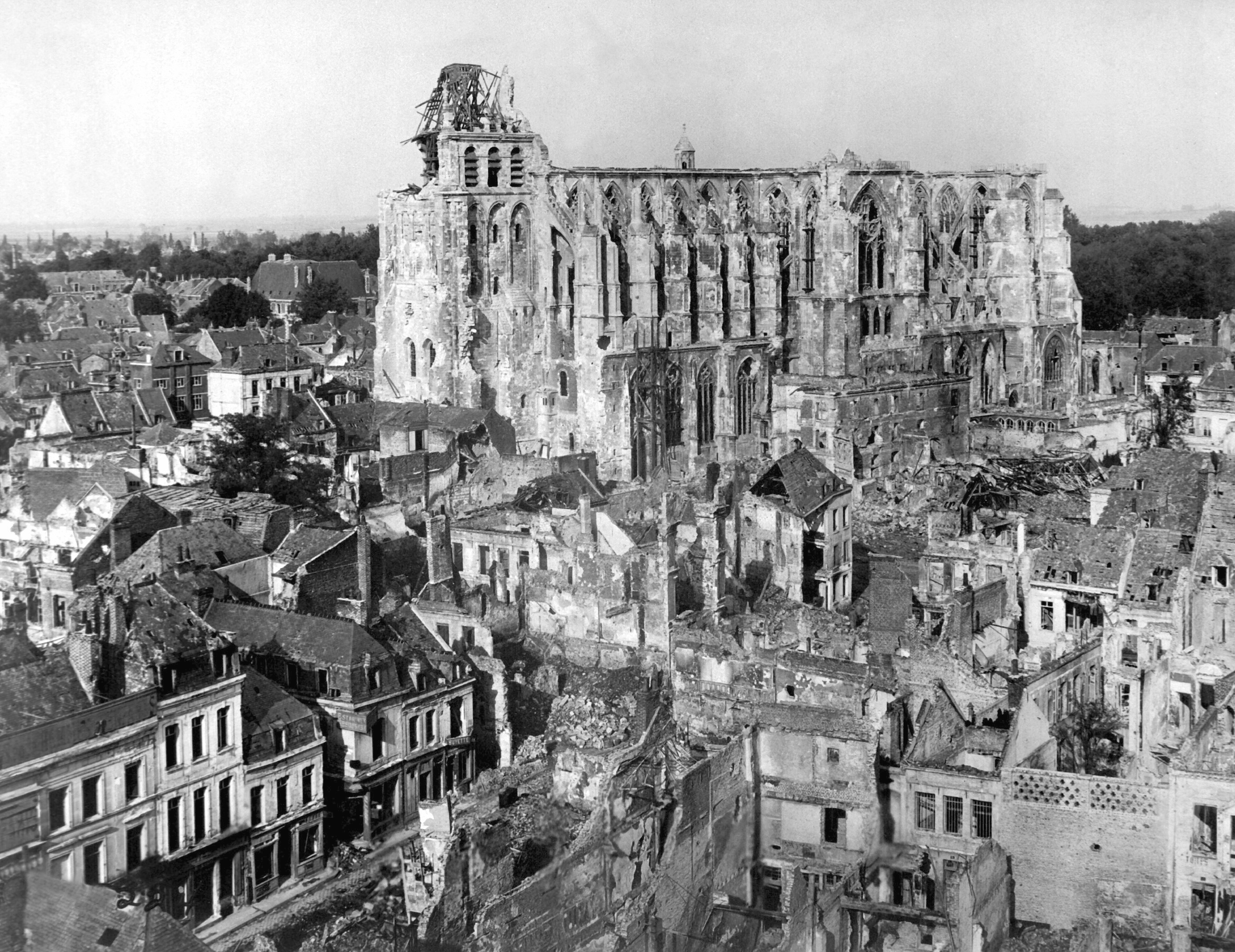 View of the ruins of the town and Cathedral of St. Quentin, France